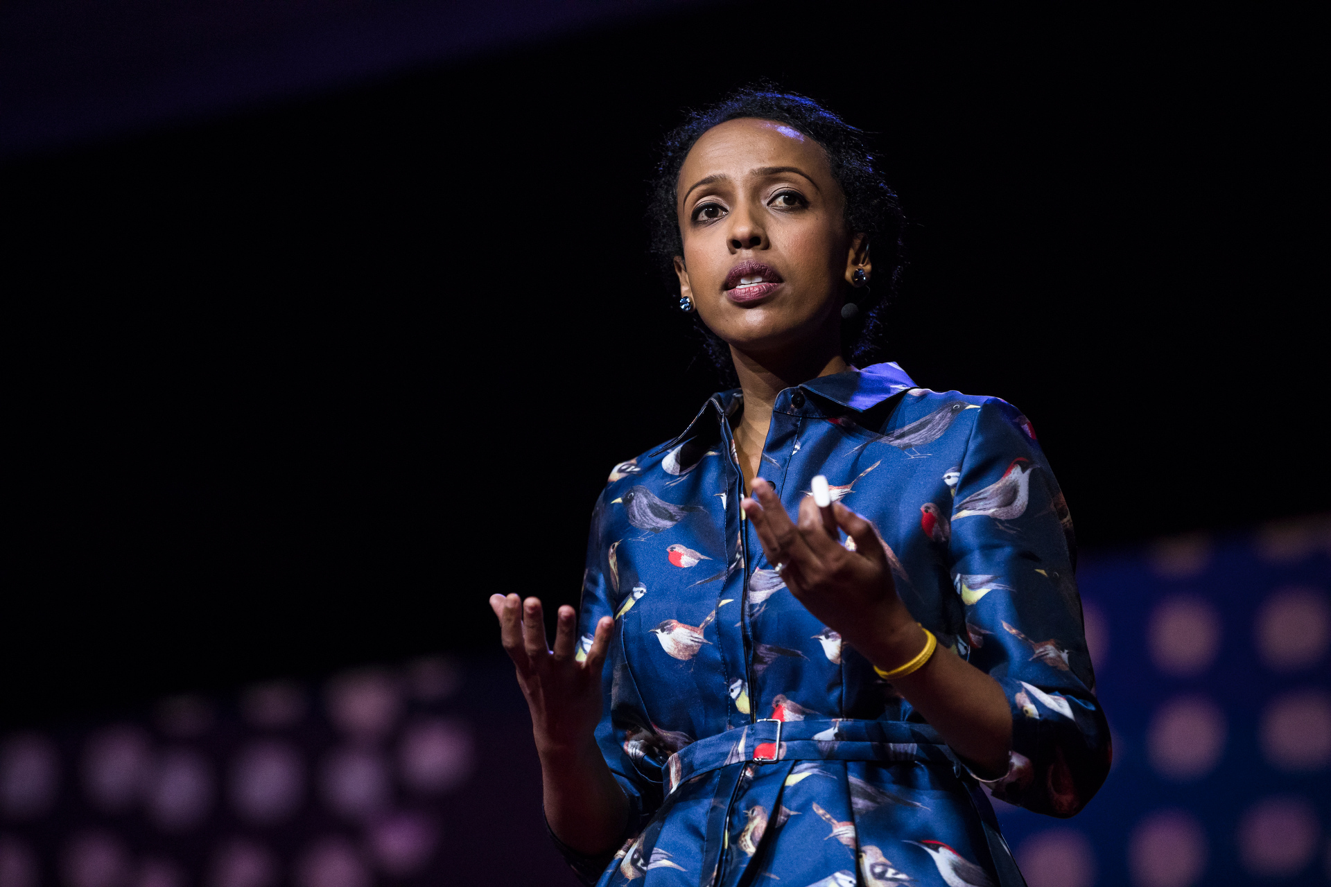 Sara Menker speaks at TEDGlobal 2017 - Builders, Truth Tellers, Catalysts - August 27-30, 2017, Arusha, Tanzania. Photo: Ryan Lash / TED